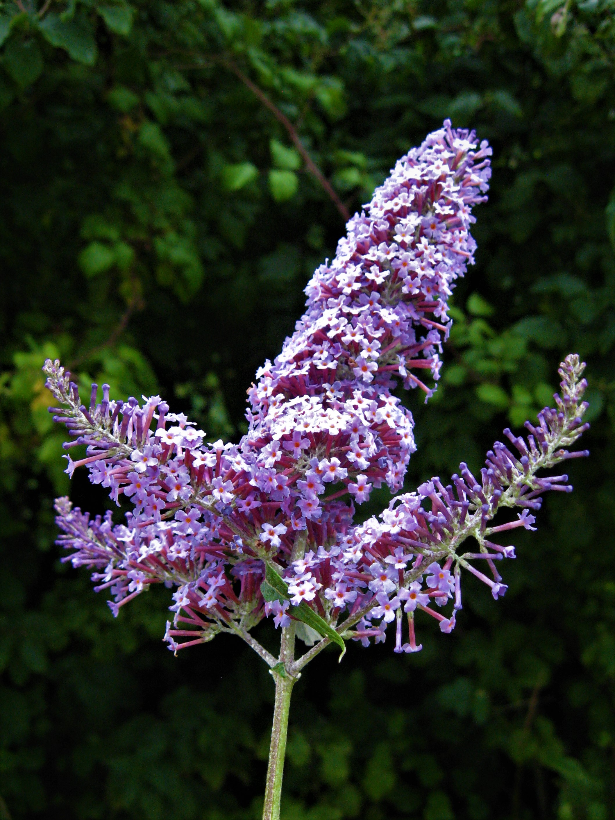 Photo of the compound panicle of Buddleja davidii 'Greenway's River Dart'